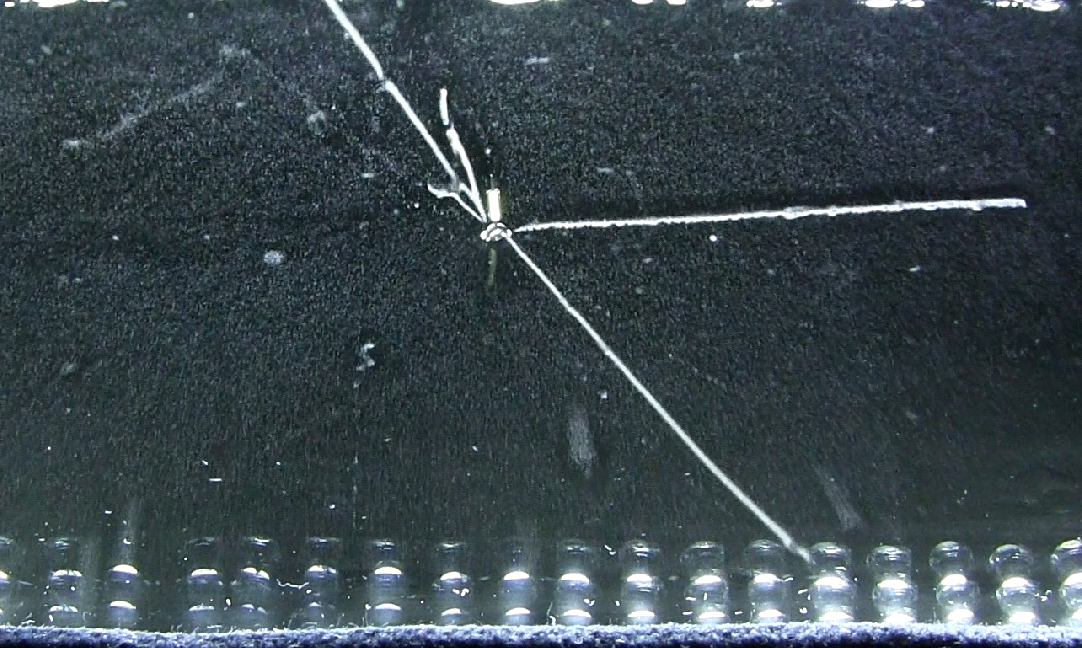 We can see the alphas particles coming from the decay of Radium 226